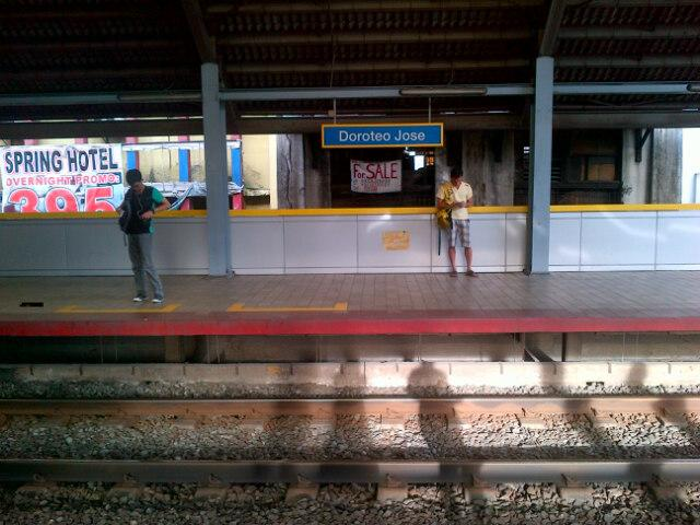 Platform Area of LRT D. Jose Station